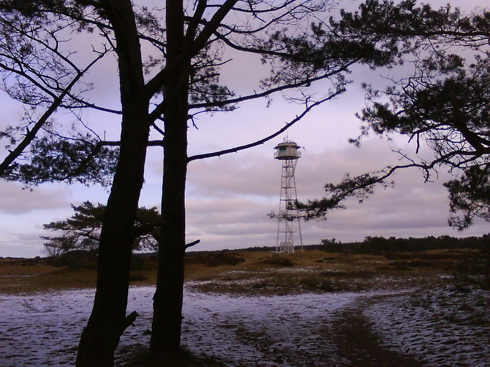 Former military terrain Melby Overdrev, Asserbo, Denmark